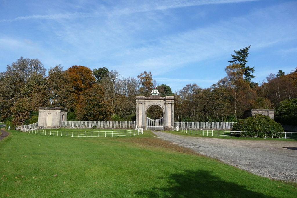 Gates to Rossdhu House